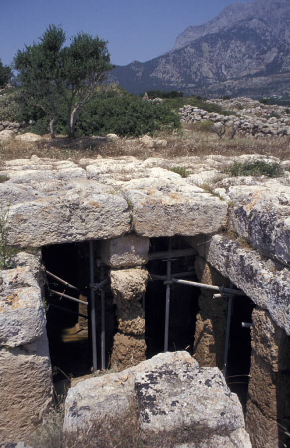 roman cistern near Lefkos, Karpathos Greece